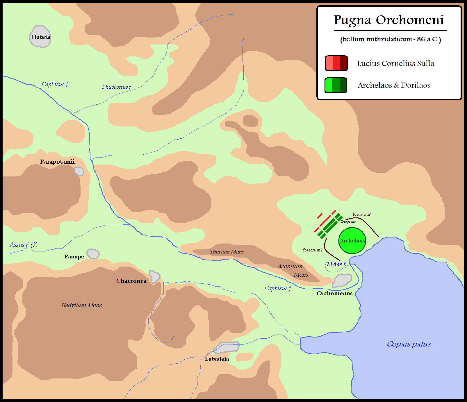 Battle of Orchomenos (86 BC)